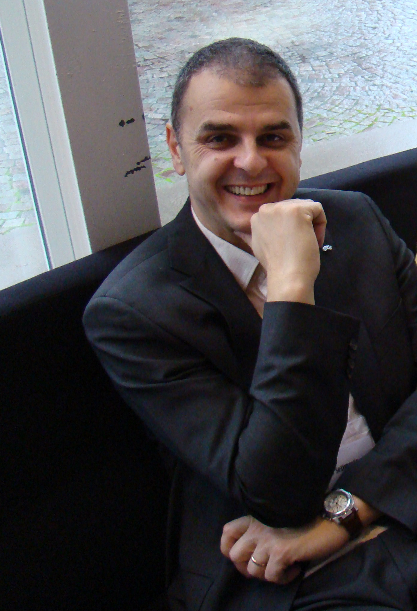 Jasenko Selimovic culture politics liberal party of sweden gothenburg parliament